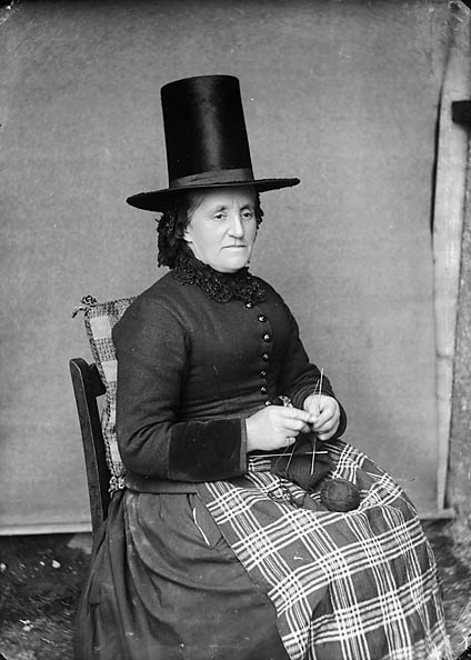 1 negative : glass, dry plate, b&w ; 16.5 x 12 cm.